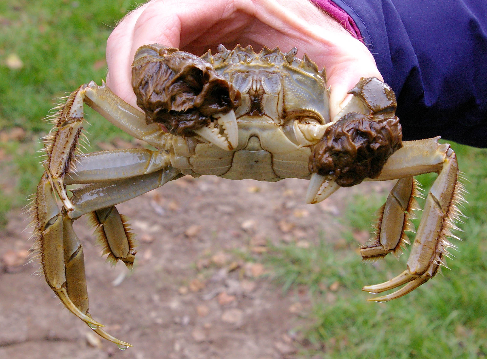 The Chinese mitten crab, Eriocheir sinensis. This male specimen had been caught with many others by a fisherman in the Havel river in the federal state of Brandenburg, Germany. Well, the hairy scissors are visible; however, the "fur" outside the water looks pretty greasy.